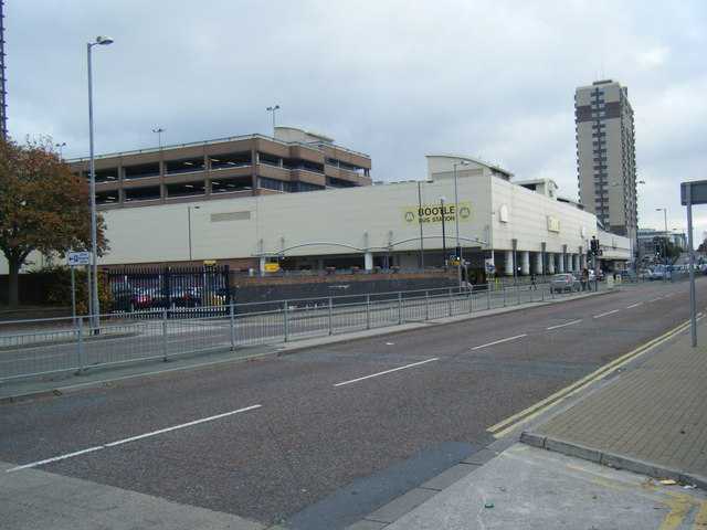 Bootle Bus Station Looking across Washington Parade, with the Strand Shopping Centre car park behind.